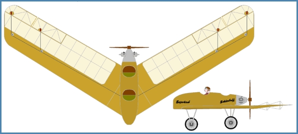 Soldenhoff/Espenlaub LF-5